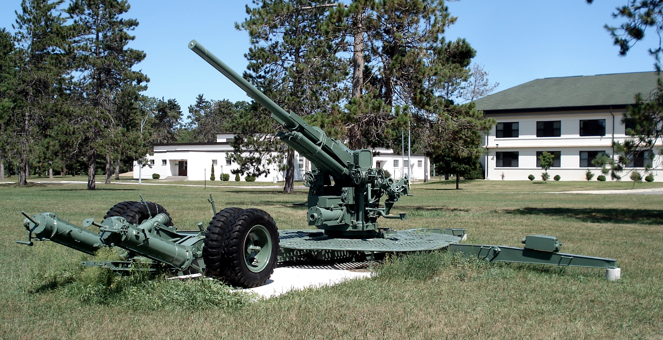 American 90 mm M1 anti-aircraft gun, displayed on the grounds of CFB Borden (Base Borden Military Museum). Photo taken on August 12, 2006. Source: Photo by me, User:Balcer.